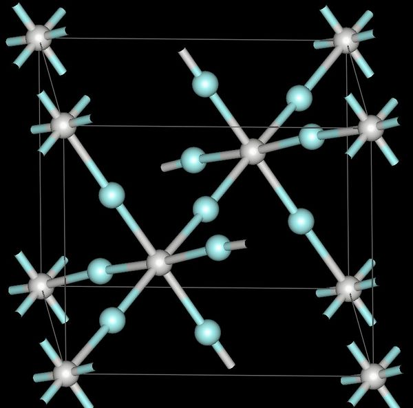 Structure of scandium(III) fluoride Reference: Lösch R., Hebecker C., Ranft Z.: Röntgenographische Untersuchungen an neuen ternären Fluoriden vom Typ TlIII MF6 (M = Ga, In, Sc) sowie an Einkristallen von ScF3, ZEITSCHRIFT FUER ANORGANISCHE UND ALLGEMEINE CHEMIE, 1982, 491, 199–202